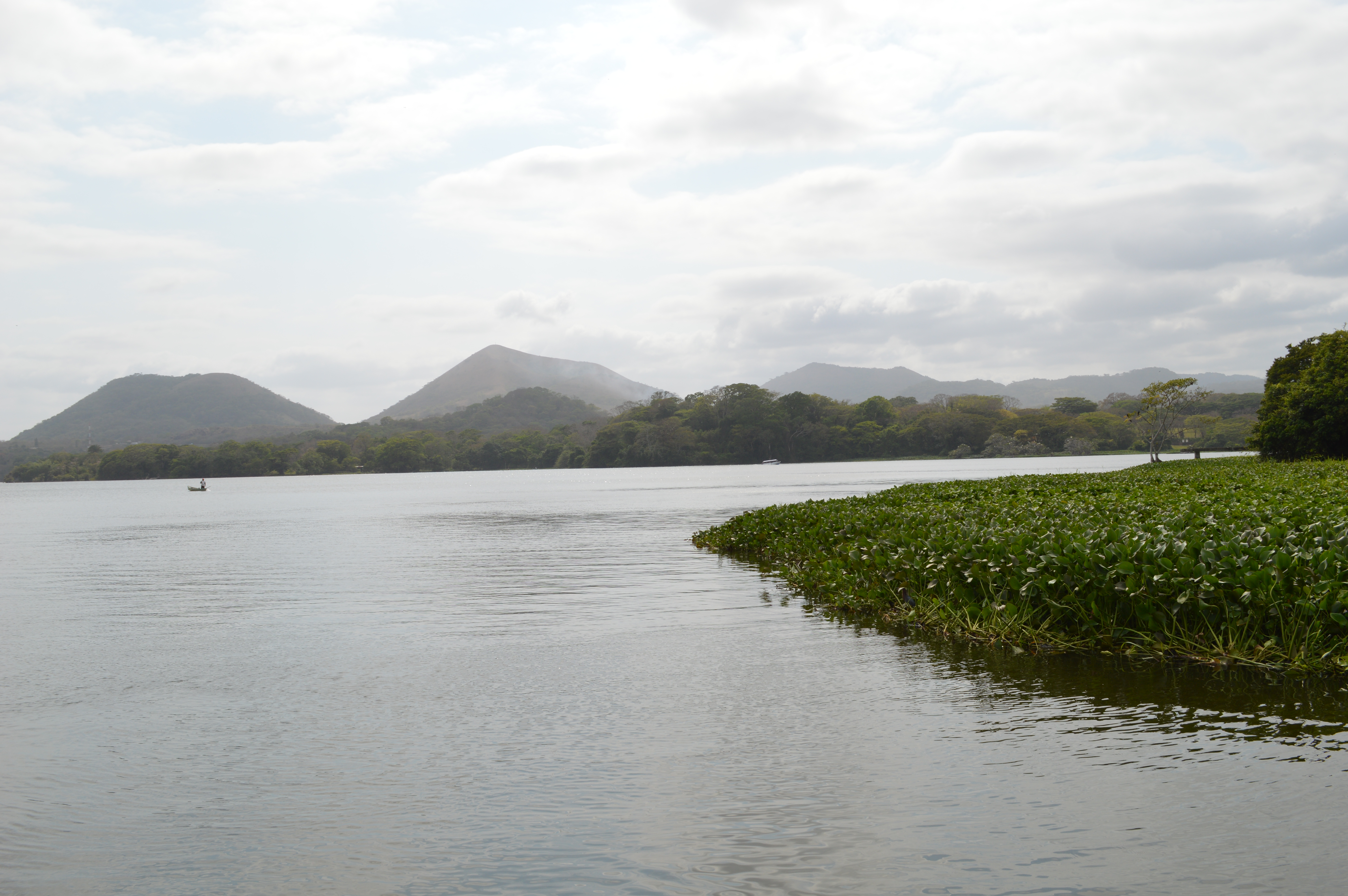 View of Lake Catemaco from the docks of Nanciyaga Ecological Reserve in Catemaco, Veracruz, Mexico